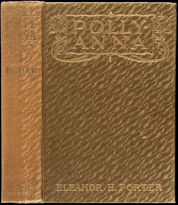 First edition cover of Pollyanna by Eleanor H. Porter, 1913.